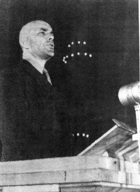 Colonel Sigmung Berling, Commander of the Polish Division in U.S.S.R. speaking at the meeting.